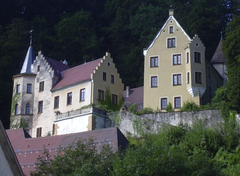 Castle in Weißenstein, Germany